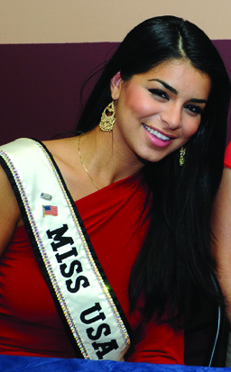 Miss USA 2010 Rima Fakih photographed during a meet and greet at Café Bean at Lajes Field, Azores, May 28, 2011. United Service Organizations, Inc. sponsored the Miss USA and Miss Teen USA 2010 tour to various military bases.